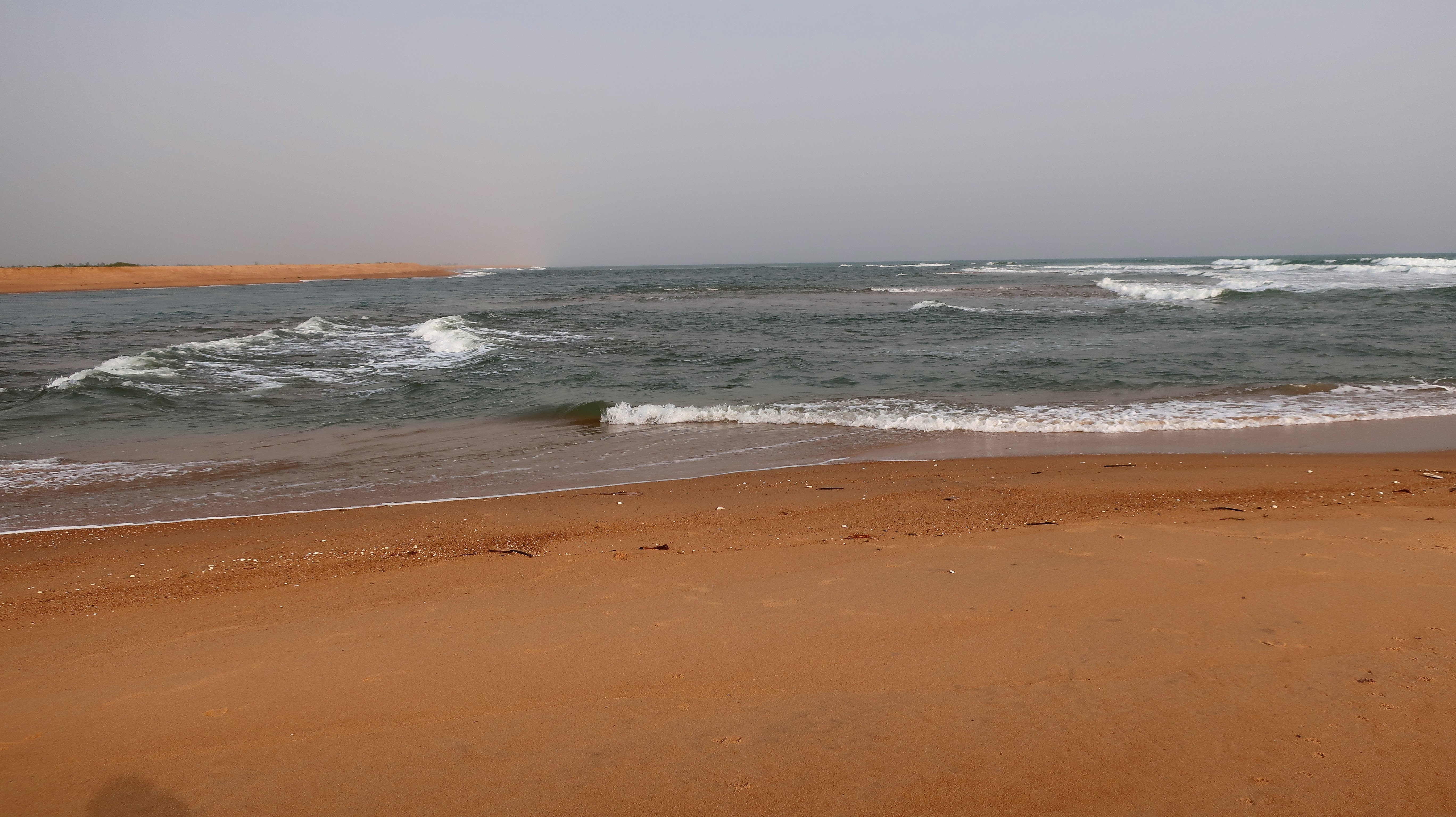 The Mono river mouth and Atlantic ocean swells, littoral in Avloh arrondissement of Grand-Popo, Benin